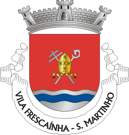 Crest of Vila Frescainha (São Martinho), a parish in the municipality of Barcelos (Portugal)